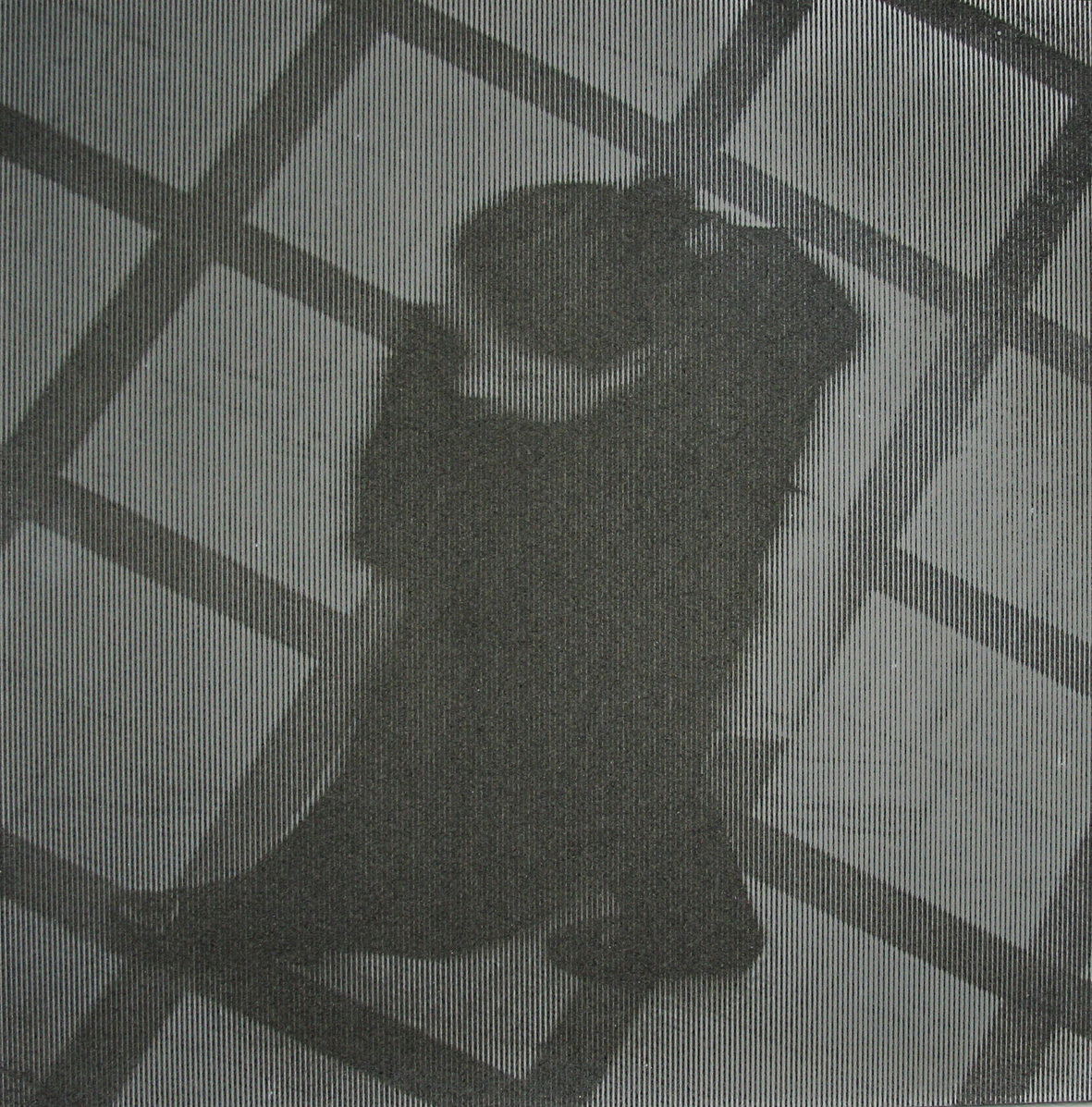 Greyzone 1, artwork technique: graphic art concrete, size: 70x70 cm